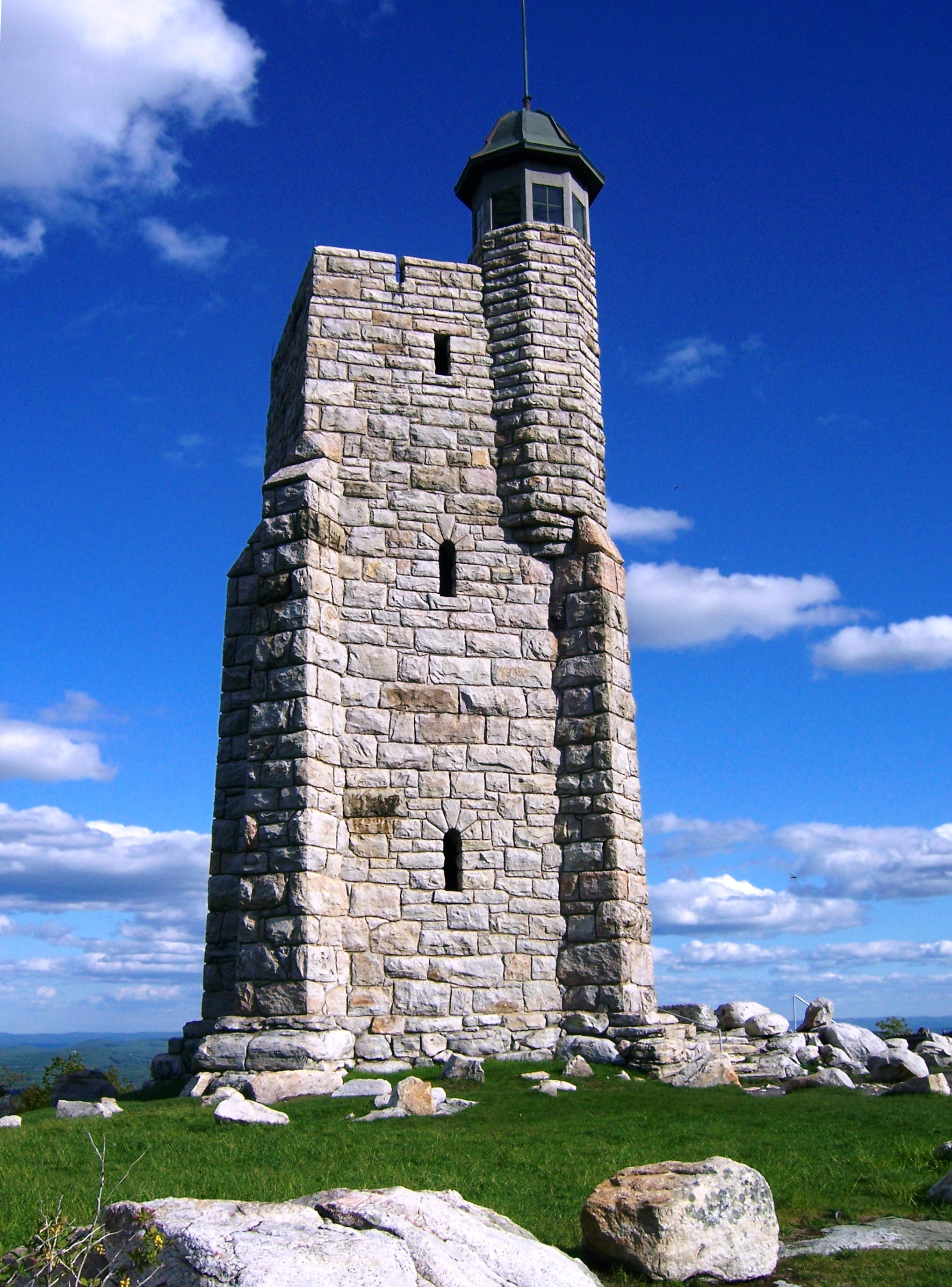 Tower on top of Skytop cliff near Mohonk Mountain House. Skytop Tower stands on Paltz Point as a memorial to Albert Smiley the founder of Mohonk Mountain House resort.